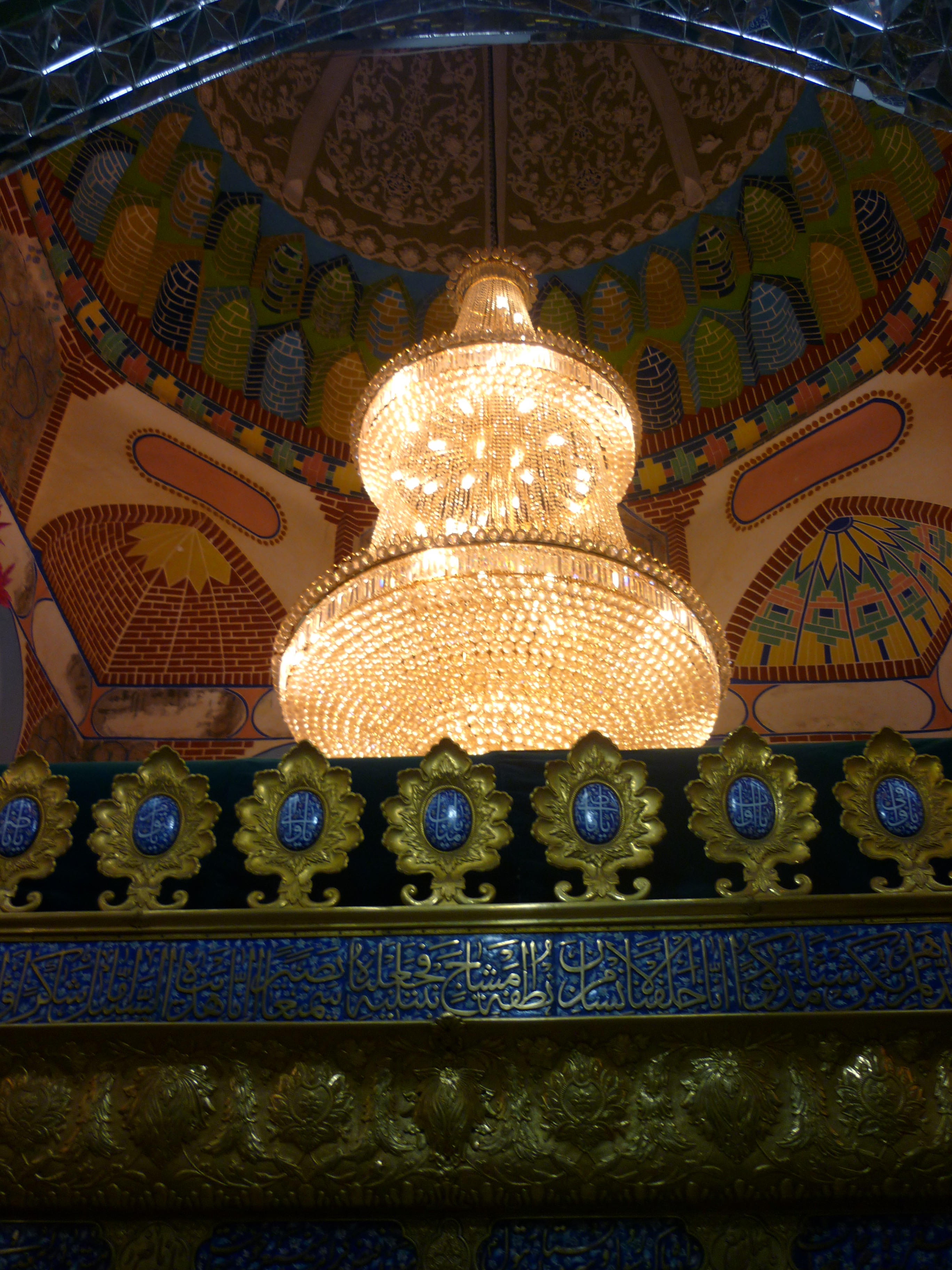 imamzadeh Tomb Shirne Imamzadeh ibrahim mazandaran